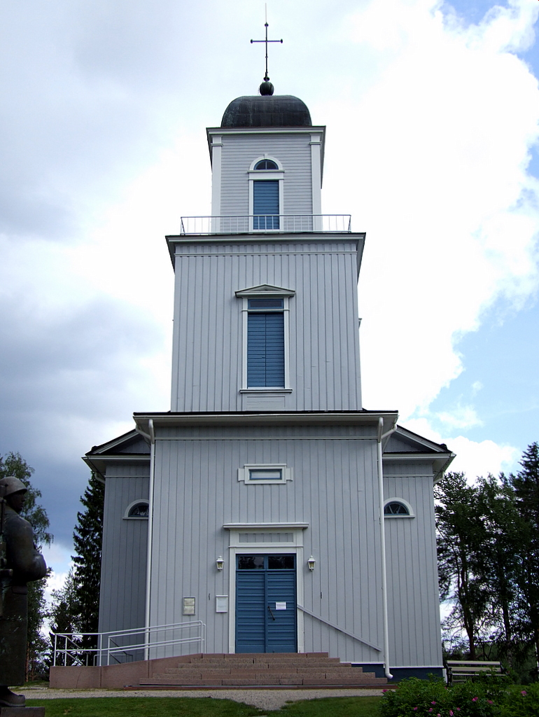 Taivalkoski Church in Taivalkoski, Finland. Designed by architect Kauno S. Kallio and completed in 1933.